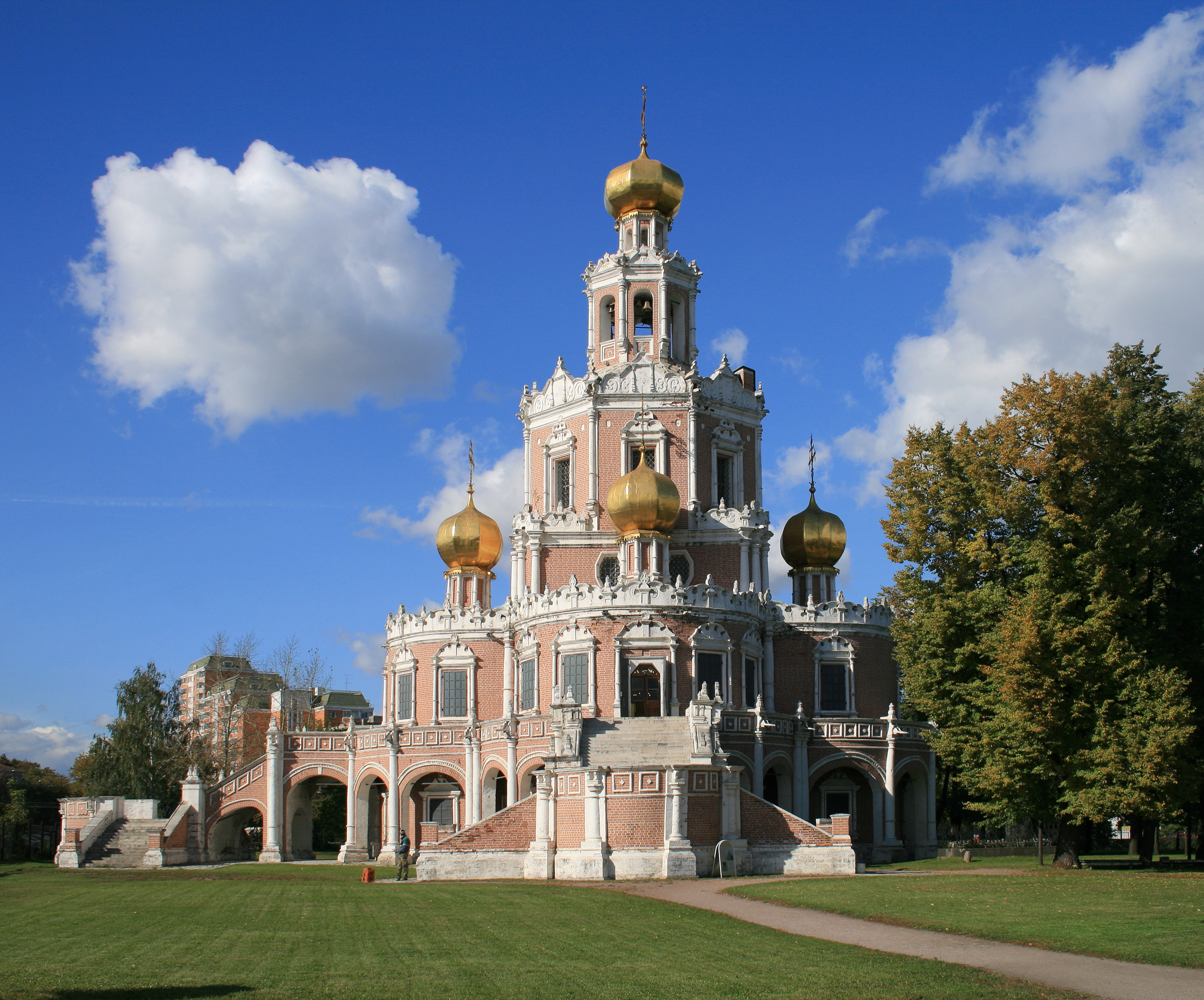 Church of the Protection of the Theotokos in Fili, 1690-1694, Moscow